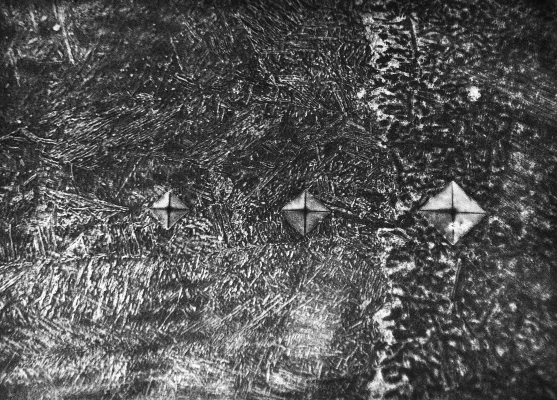 The photo shows a series of indentor's prints on the detale that has undergone heat treatment. Smaller print size show less penetration into the material, and thus higher hardness of the detail. You can see that the heat-treated area (left) has a much higher hardness than untreated (right).